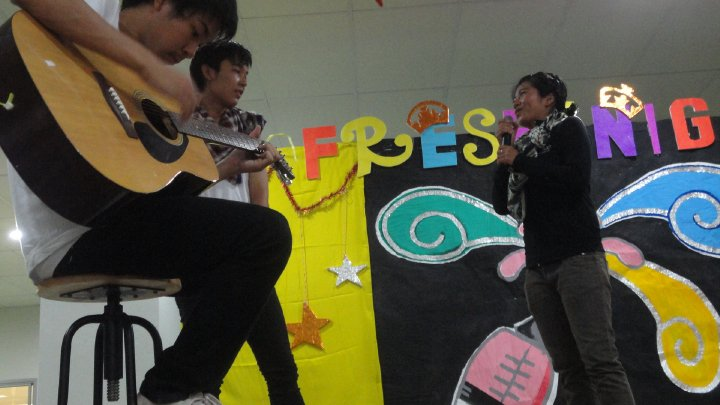 Freshy Night